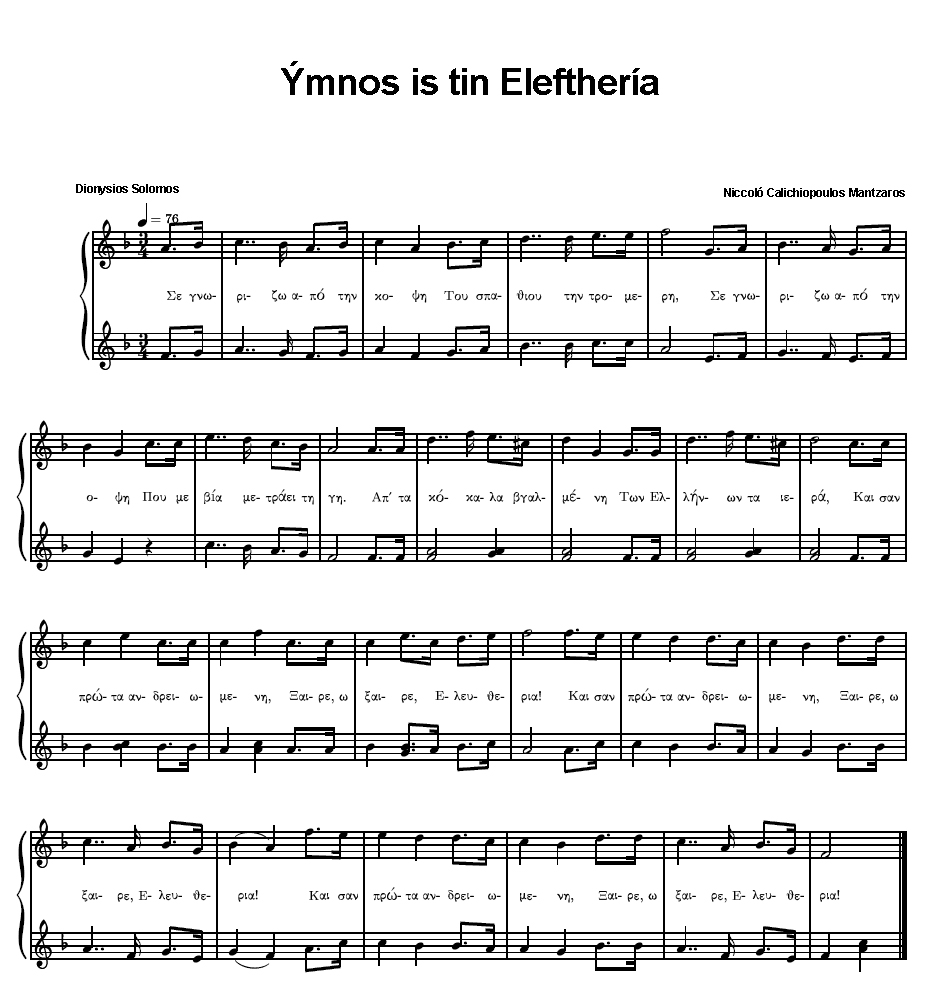 Music sheet of the Greek anthem.